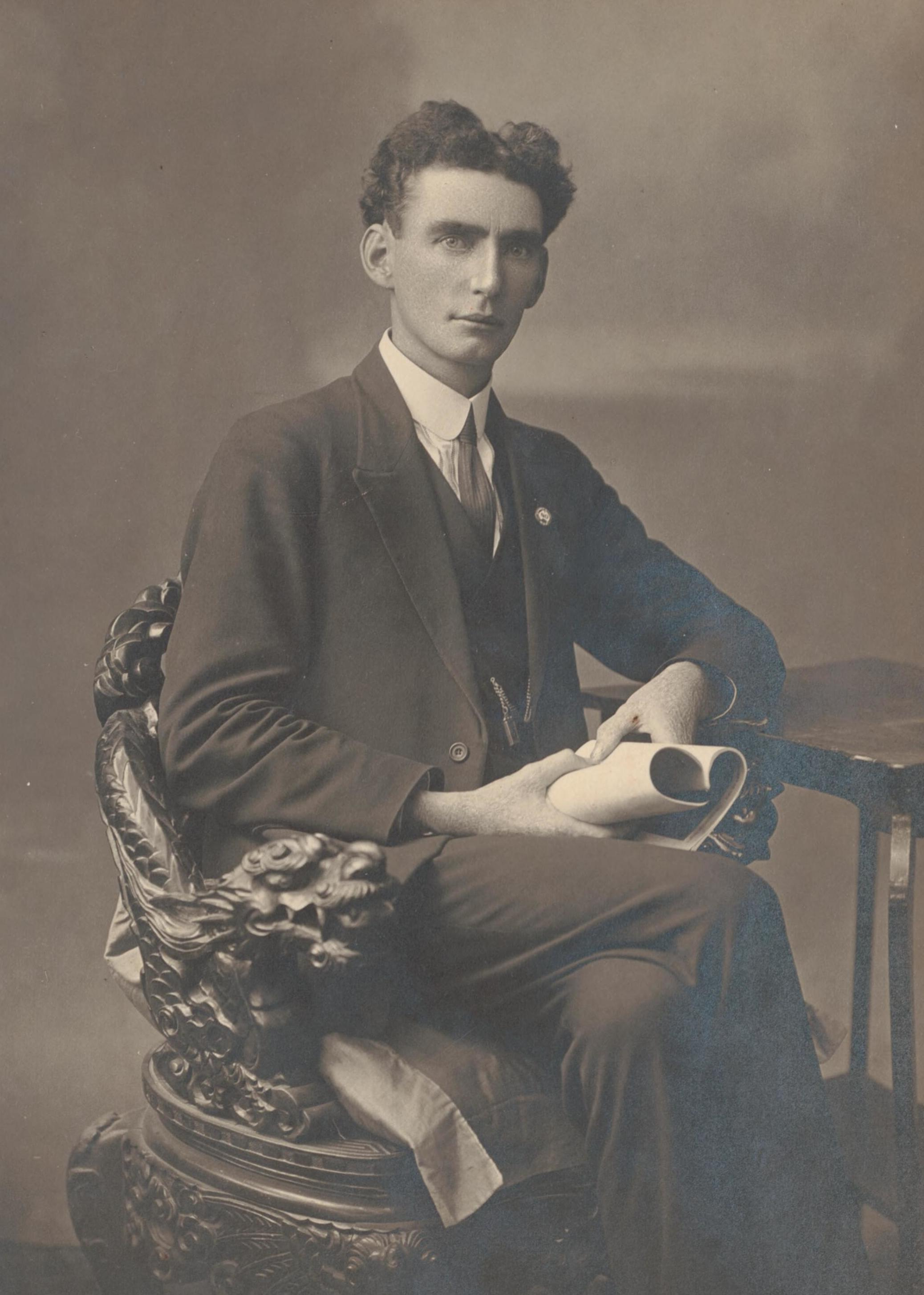 Australian politician Michael Considine